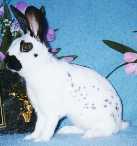 A black English Spot, a fancy breed of Rabbit